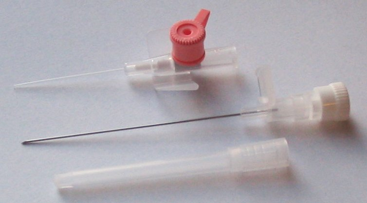 Intravenous cannula of brand Venflon (manufactured by BD / Becton Dickinson Infusion Therapy AB). 20G (1.0 x 32 mm). Sold in the UK. Inner needle removed. By me. Photo taken in 2006.